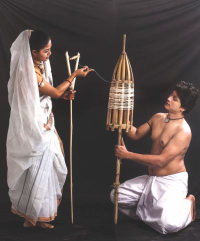 Depiction of ancient Indians were fine muslin cloth. Photo taken in Dhaka, Bangladesh prior to Muslin Festival 2016